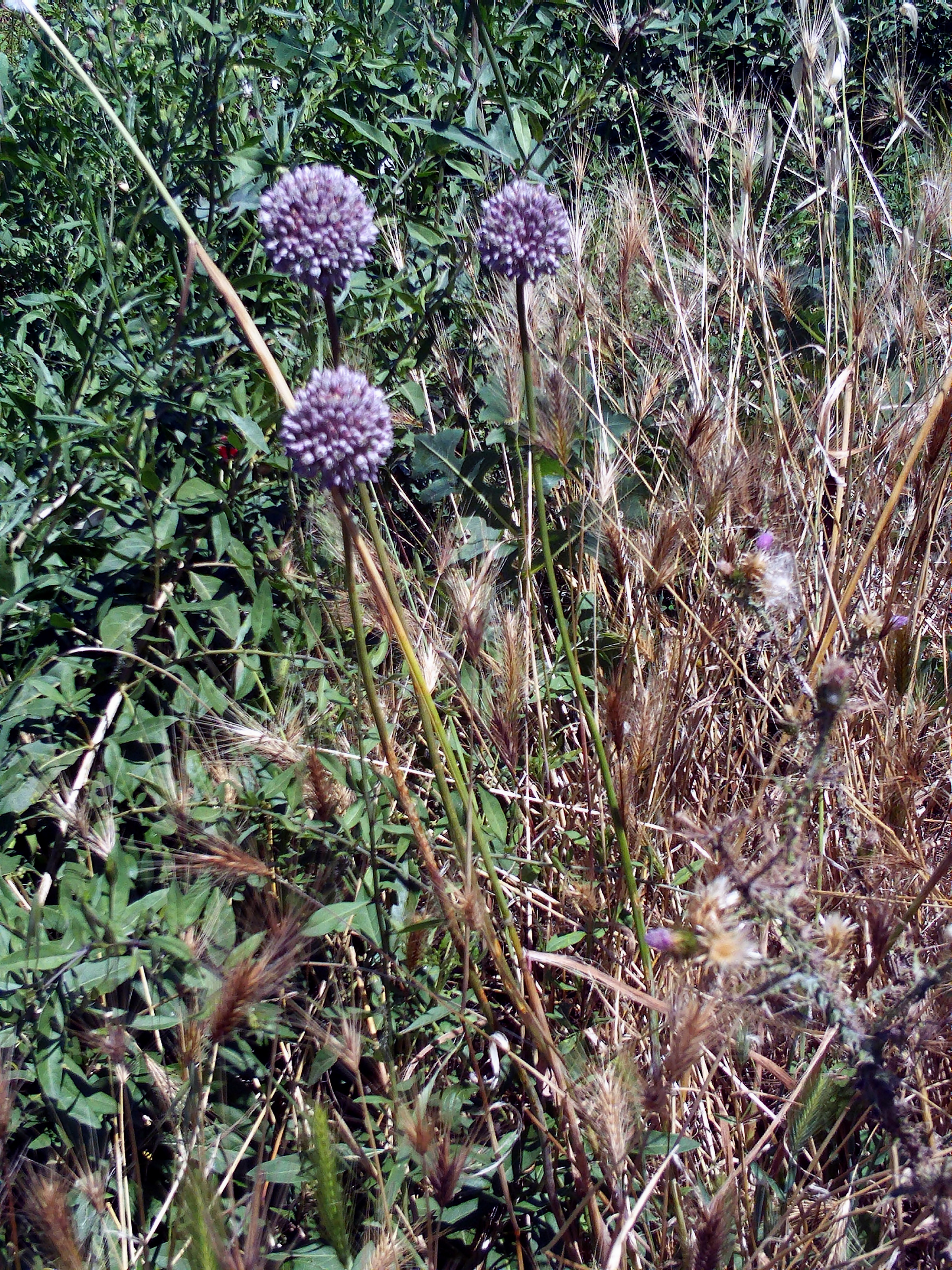 Allium ampeloprasum Habitus Dehesa Boyal de Puertollano, Spain